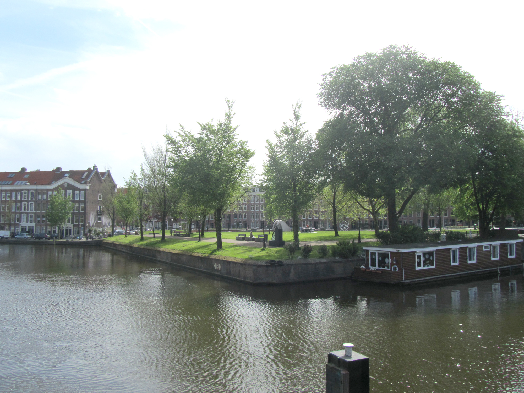 Eerste Marnixplantsoen, a small park in Amsterdam